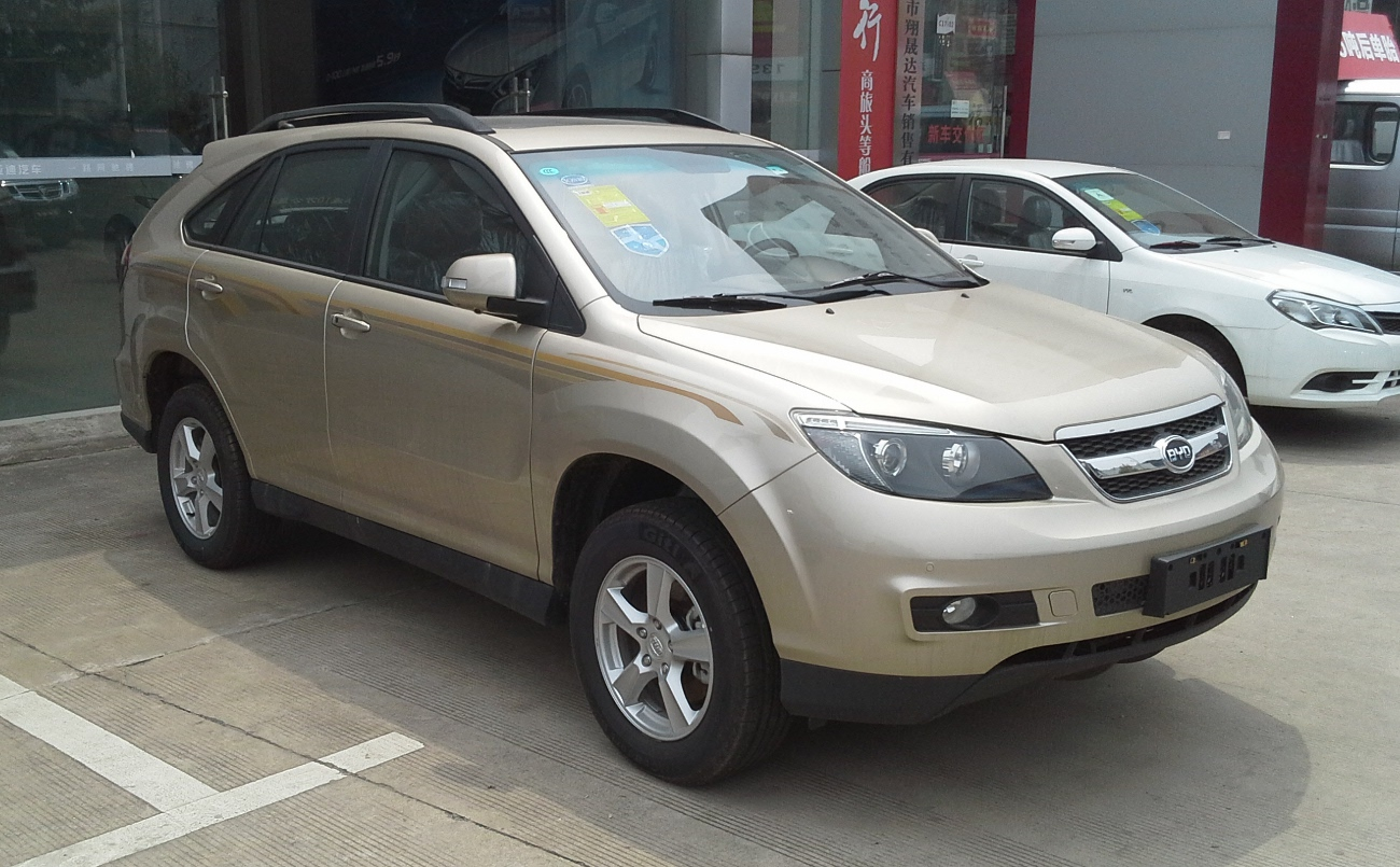 BYD S6 photographed in Wuhan, Hubei province, China.